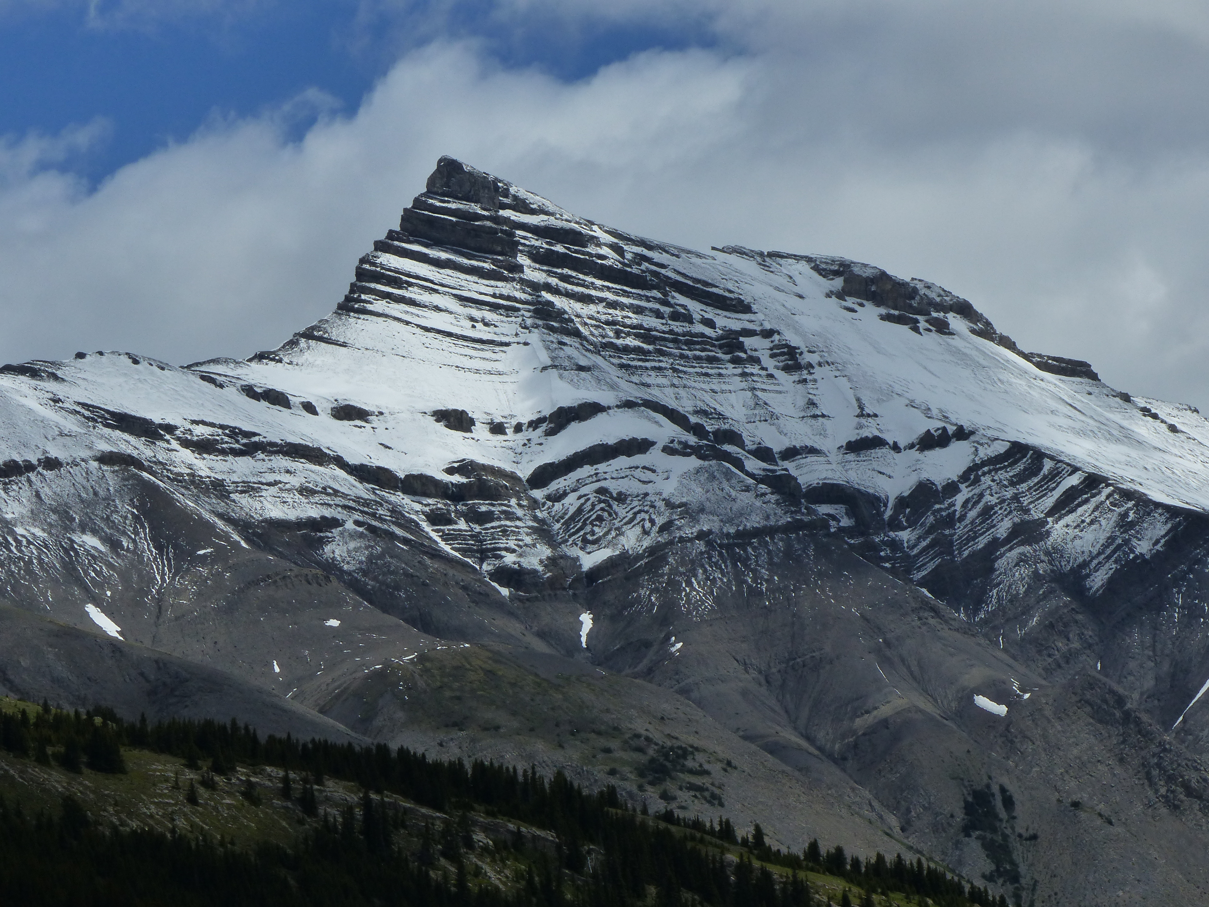 I took this shot close to the Athabasca glacier but need help to identify the actual mountain